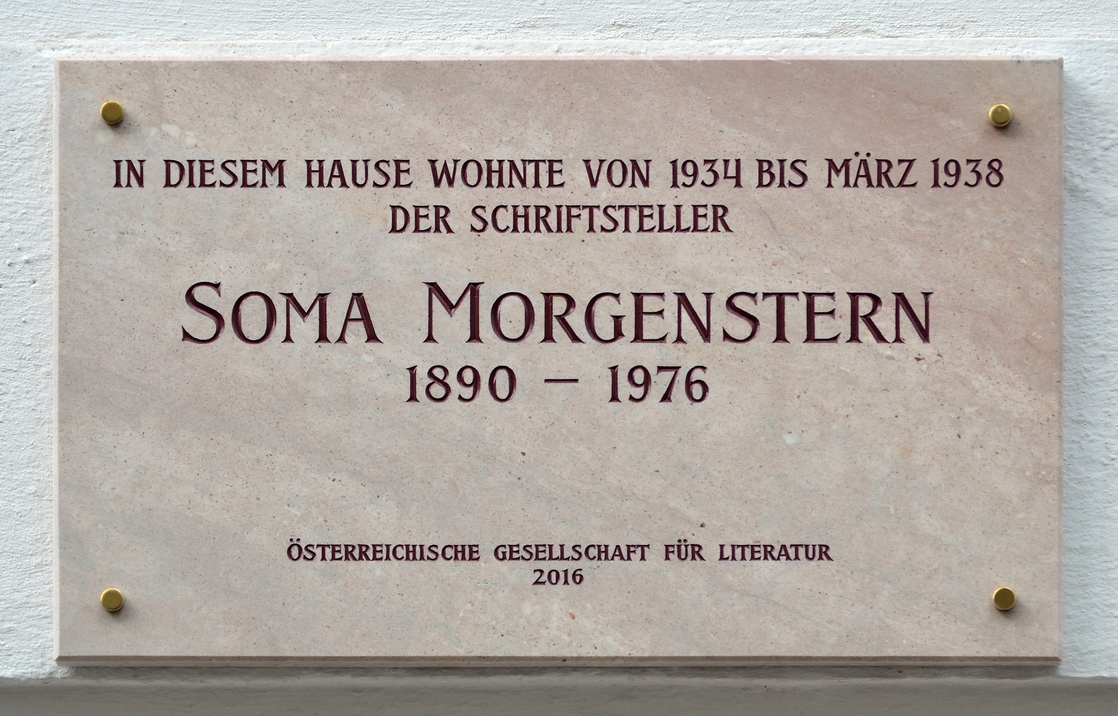 Plaque for Soma Morgenstern at Belvederegasse 10 in Wieden, Vienna.